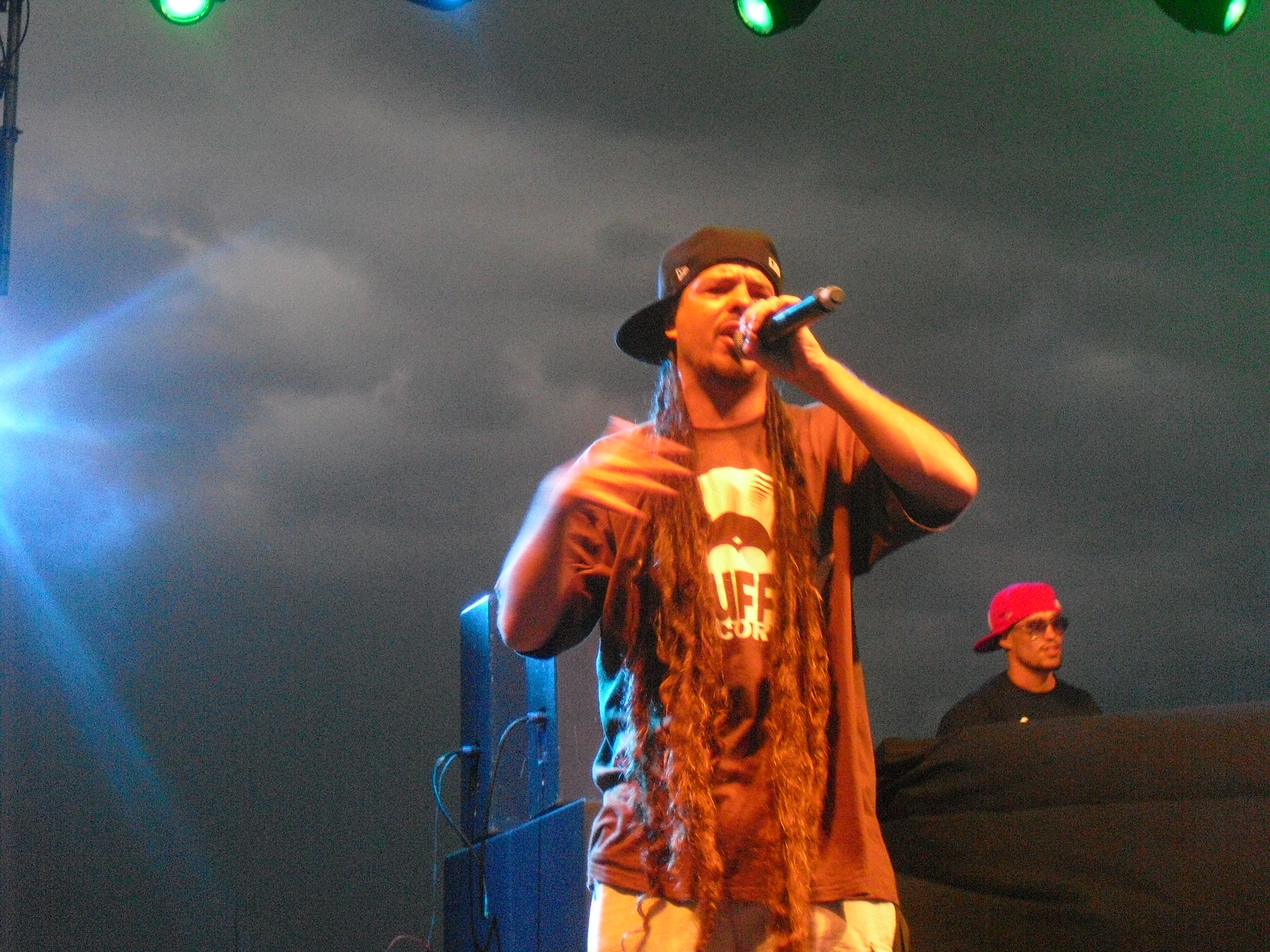 Rapsusklei en el Zaragoza Ciudad 2010 colaborando con Sharif